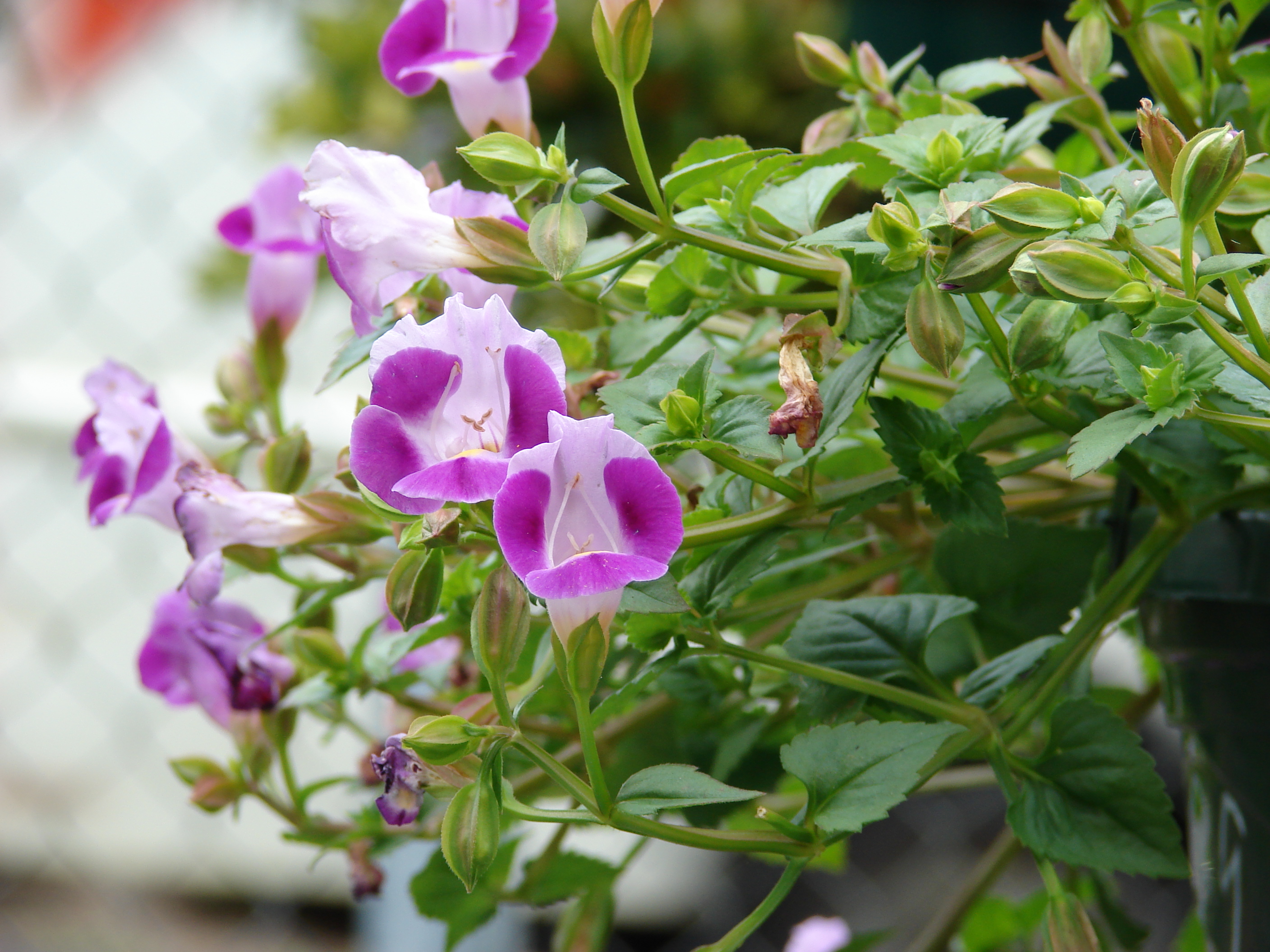 Torenia fournieri (flowering habit hanging basket). Location: Maui, Kula Ace Hardware and Nursery